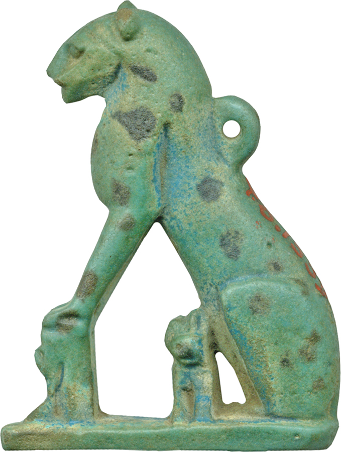 The mother cat has four kittens, demonstrating her fertility. The loop on the back suggests that this amulet could be worn as a pendant. The skin of the cat is decorated with black spots.